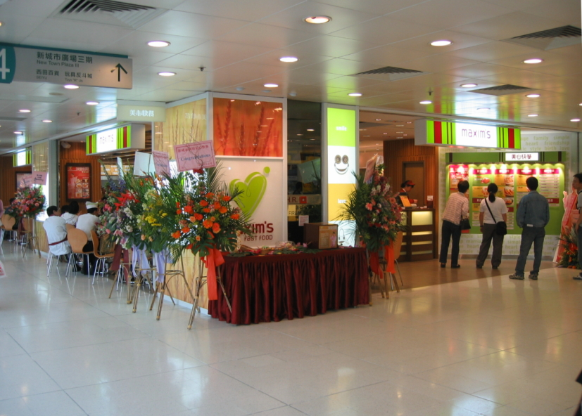 Maxim's fast food in New Town Plaza